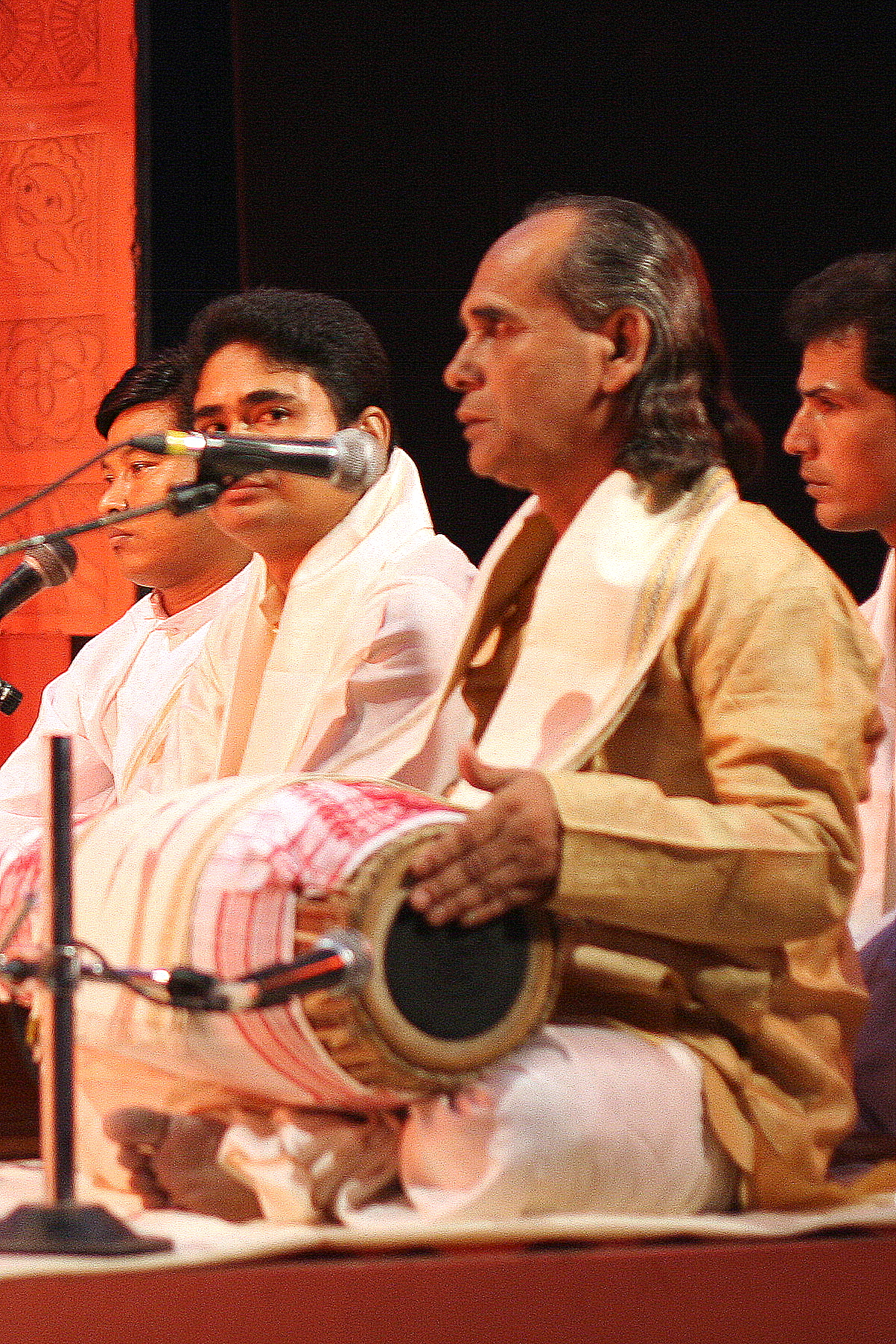 Sattriya dance was presented by the Sattriya Kendra, Guwahati, established as part of Sangeet Natak Akademi’s programme of support to Sattriya dance.. Ghana Kanta Bora Borbayan has been trained in the Sattriya dance and music traditions of Assam by several eminent gurus. He has also received training at the Kamalabari sattra of Majuli, Assam. A teacher of eminence, Ghana Kanta Bora Borbayan has been training students in Sattriya dance and allied disciplines for many years. He has been performing and attending seminars and symposia, introducing the Sattriya art in prestigious festivals in various parts of the country. Ghana Kanta Bora Borbayan has also received the Sangeet Natak Akademi Award, 2001 for his contribution to Sattriya dance.(Source Sangeet Natak Academy)